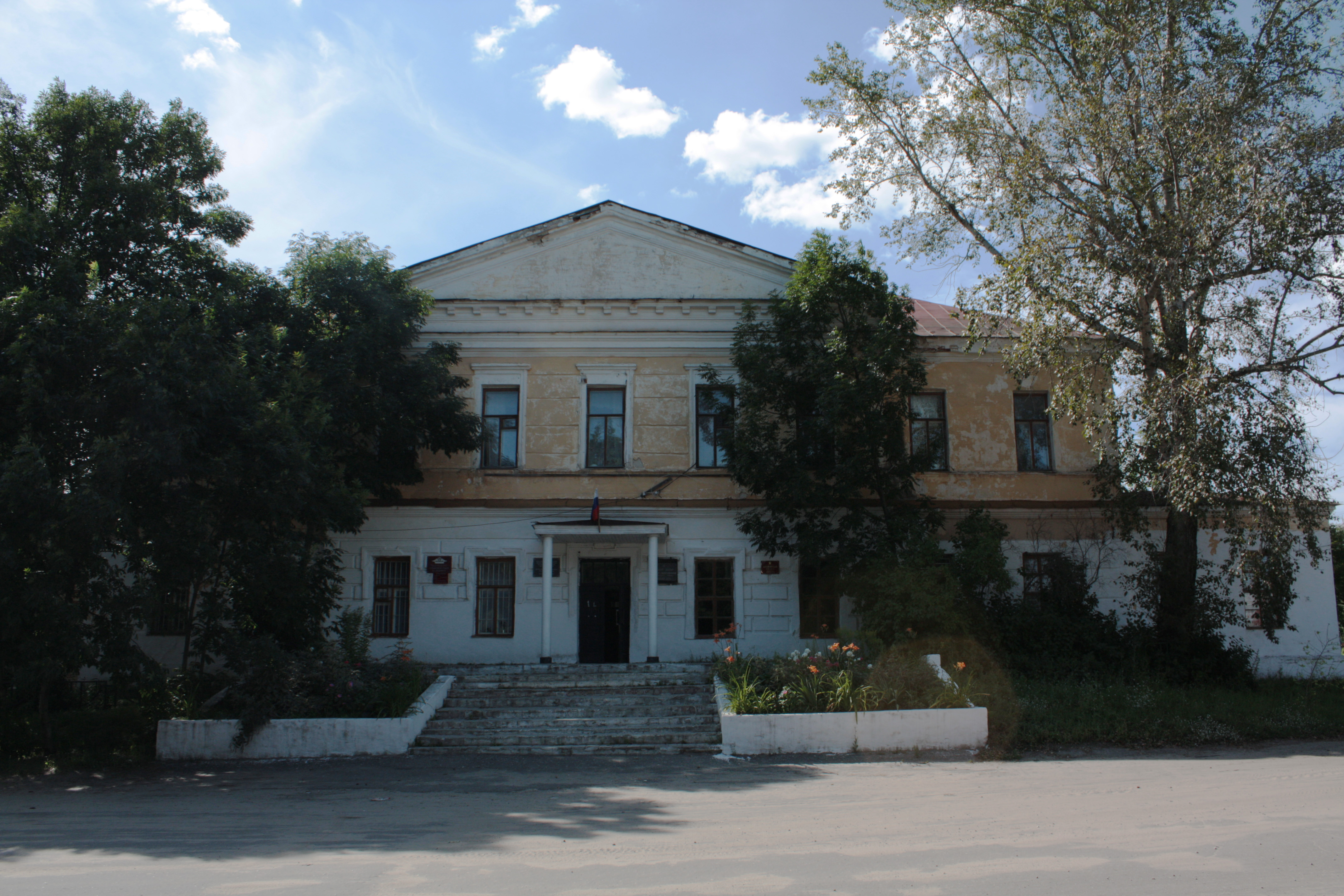 Town Parliament of Kerensk